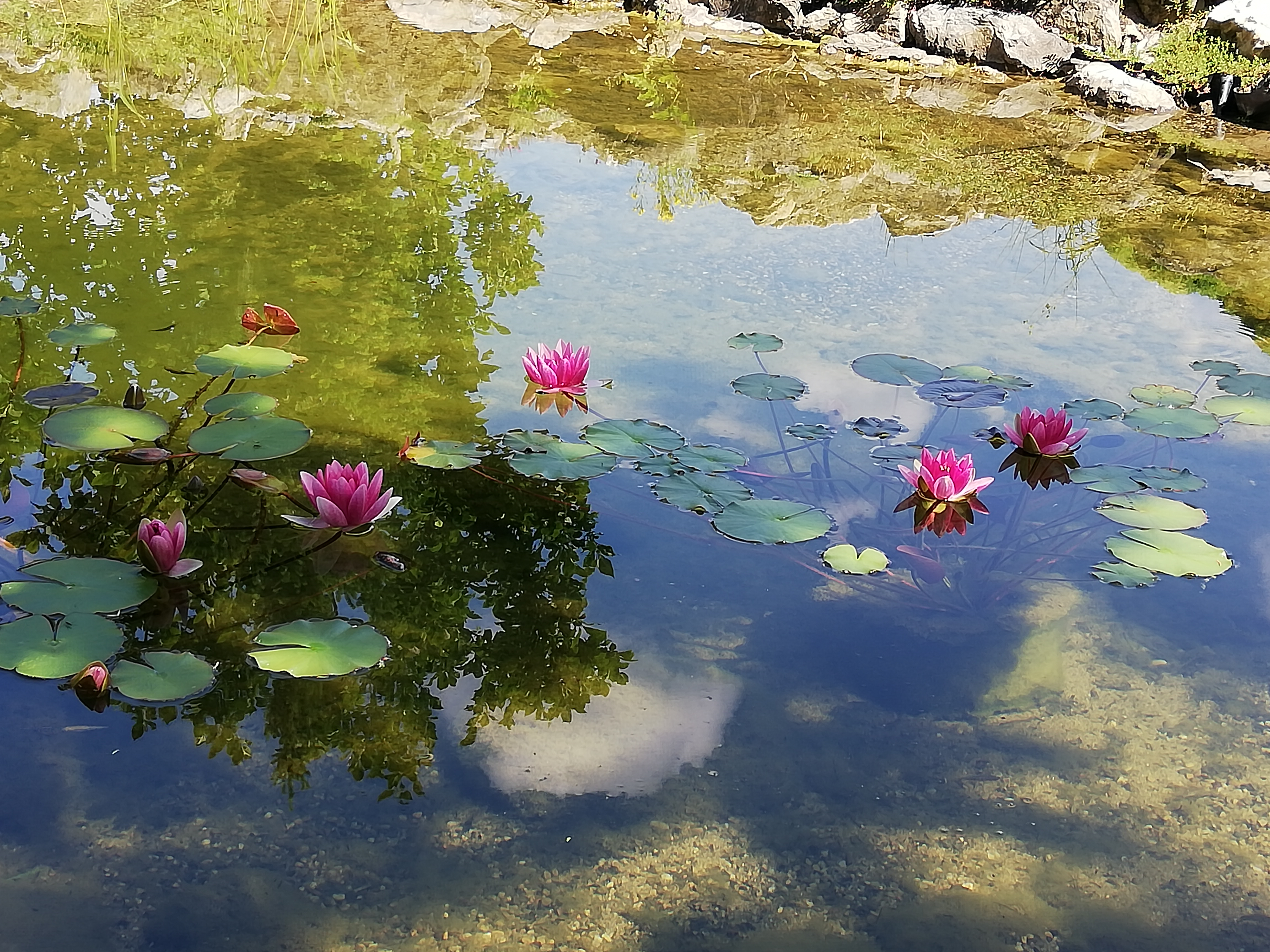 Small pond with blooming water lilies. Internal area of The Rock Garden in Hlubočepy (Prague, Czech republic)